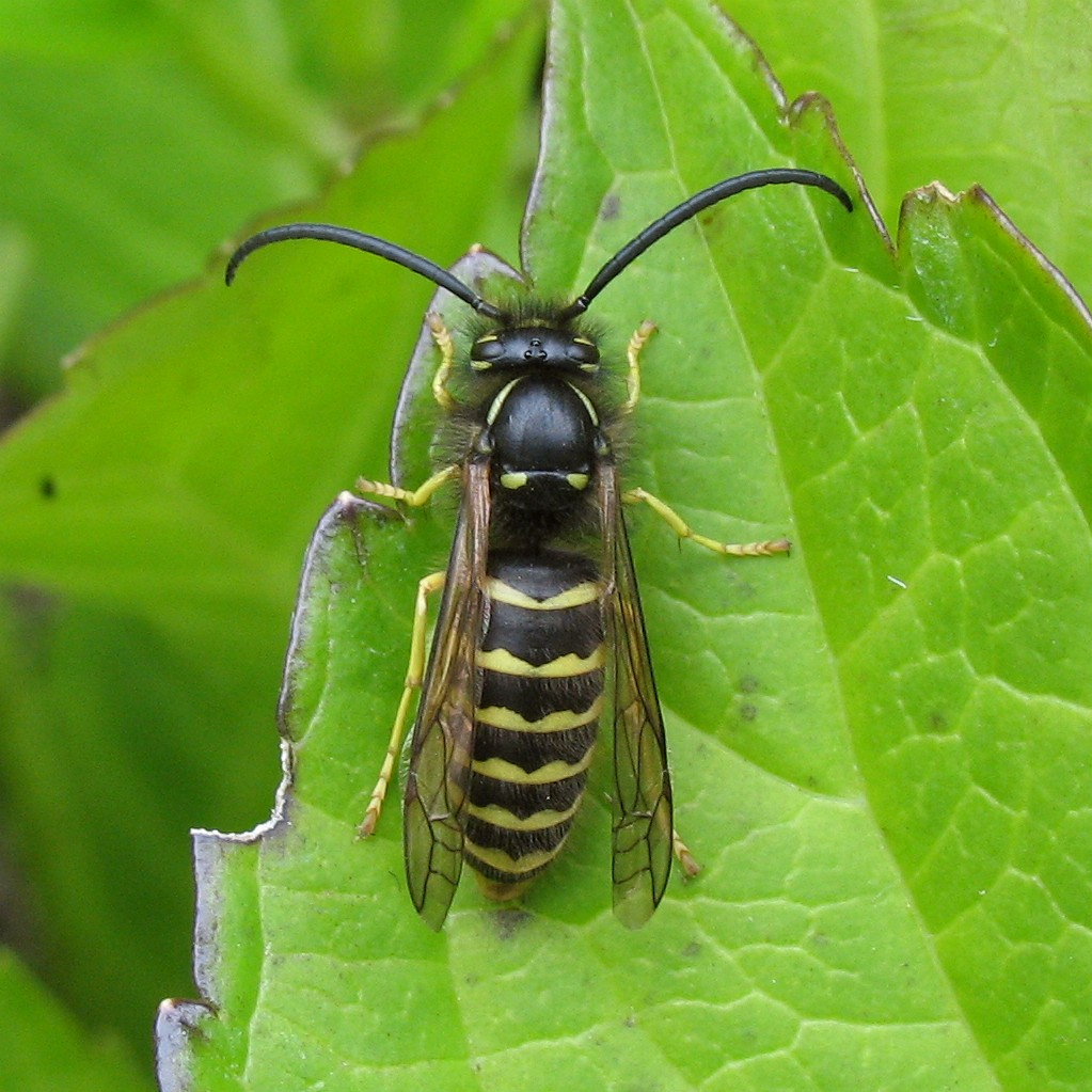 Guêpe jaune (Dolichovespula arenaria) -- Aerial yellowjacket (male) Order Hymenoptera -- Family Vespidae Bas-Saint-Laurent -- Province de Québec -- Canada Prise en août 2007 -- Taken in August 2007